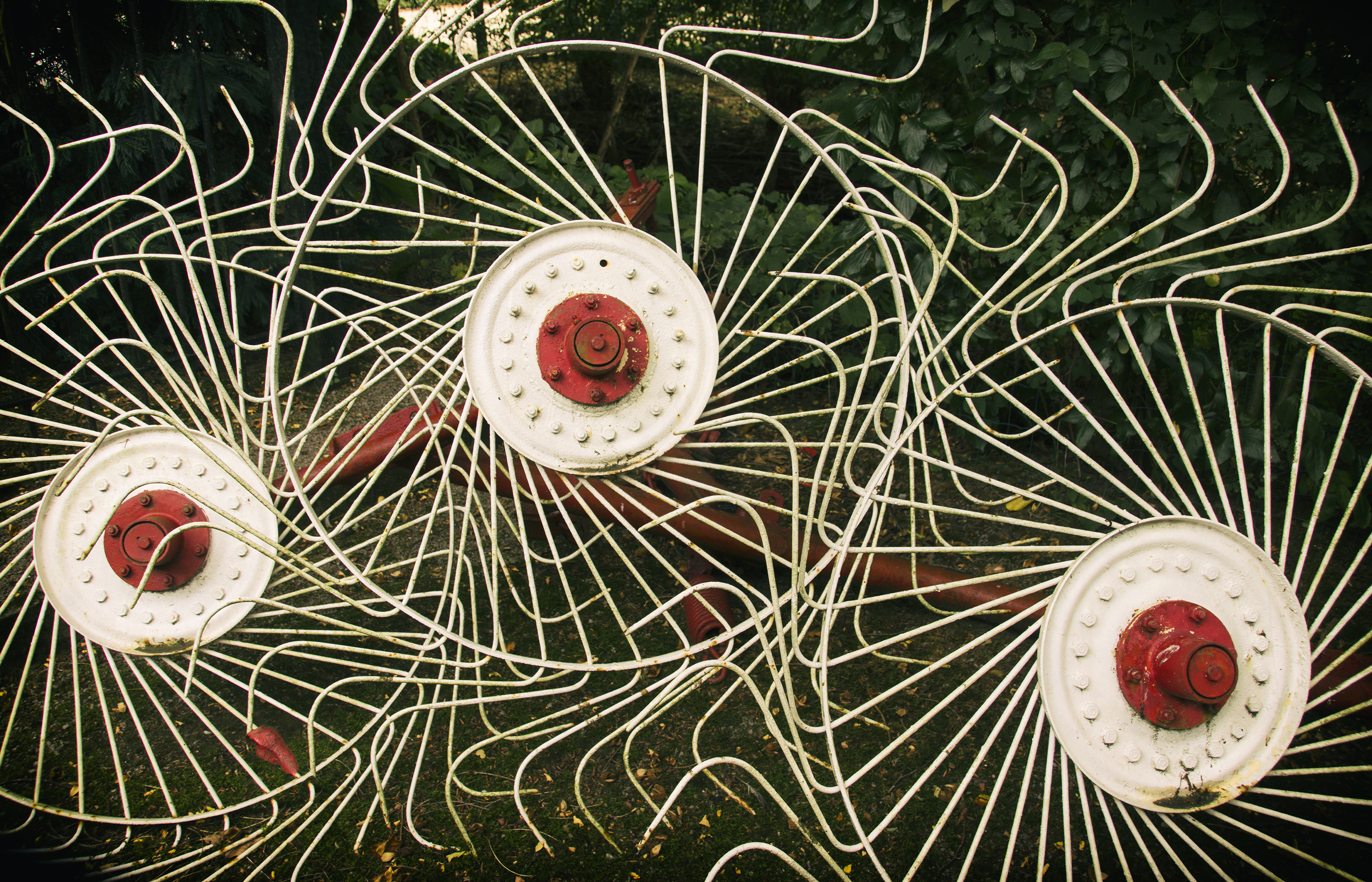 This is a file created at the museum: Bardelaere Museum in Lembeke